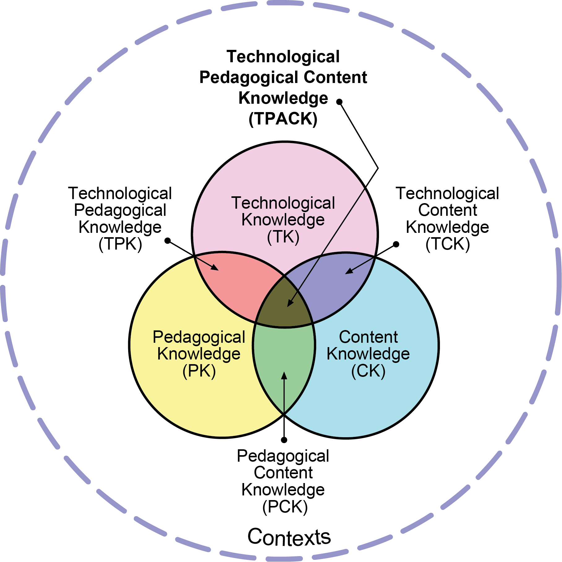 TPACK “Reproduced by permission of the publisher, © 2012 by ”